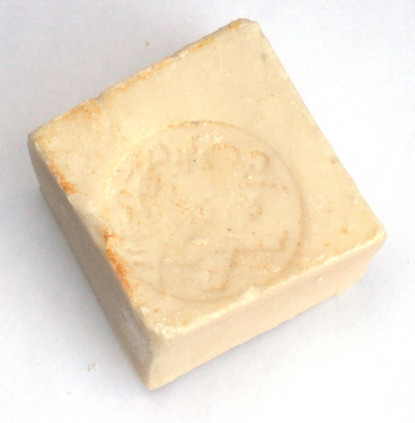 A rather old unwrapped block of soap, made in Nablus in the occupied West Bank in Palestine.